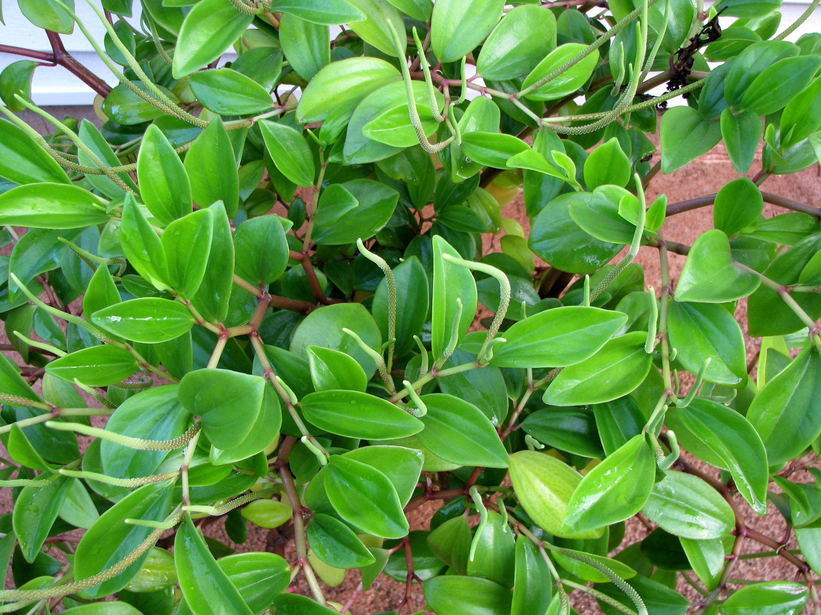 Wheeler's peperomia Piperaceae Endemic to Puerto Rico (Culebra and the Quebradillas area) Endangered Oʻahu, Hawaiian Islands (Cultivated)